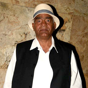 Mahavir Singh Phogat at the special screening of ‘Dangal’